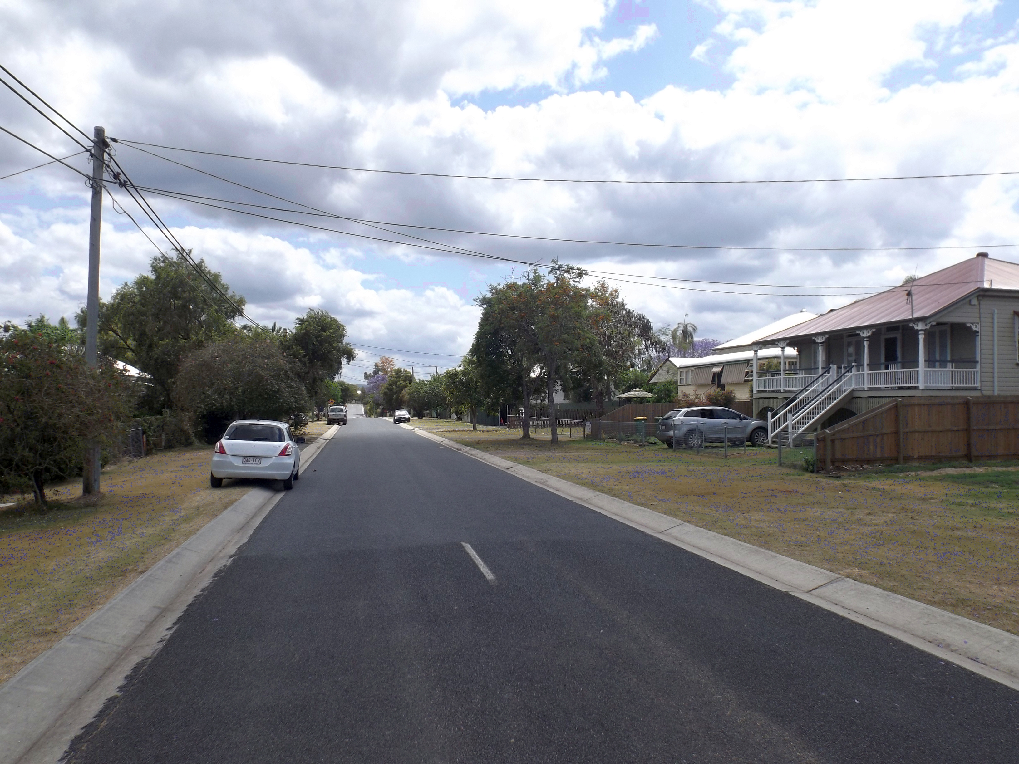 Photo of Alice Street in Silkstone, Ipswich, Queensland, Australia.